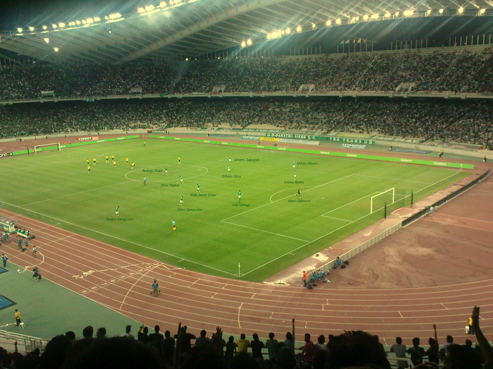 Panathinaikos vs Sparta Prague (starting lineup)